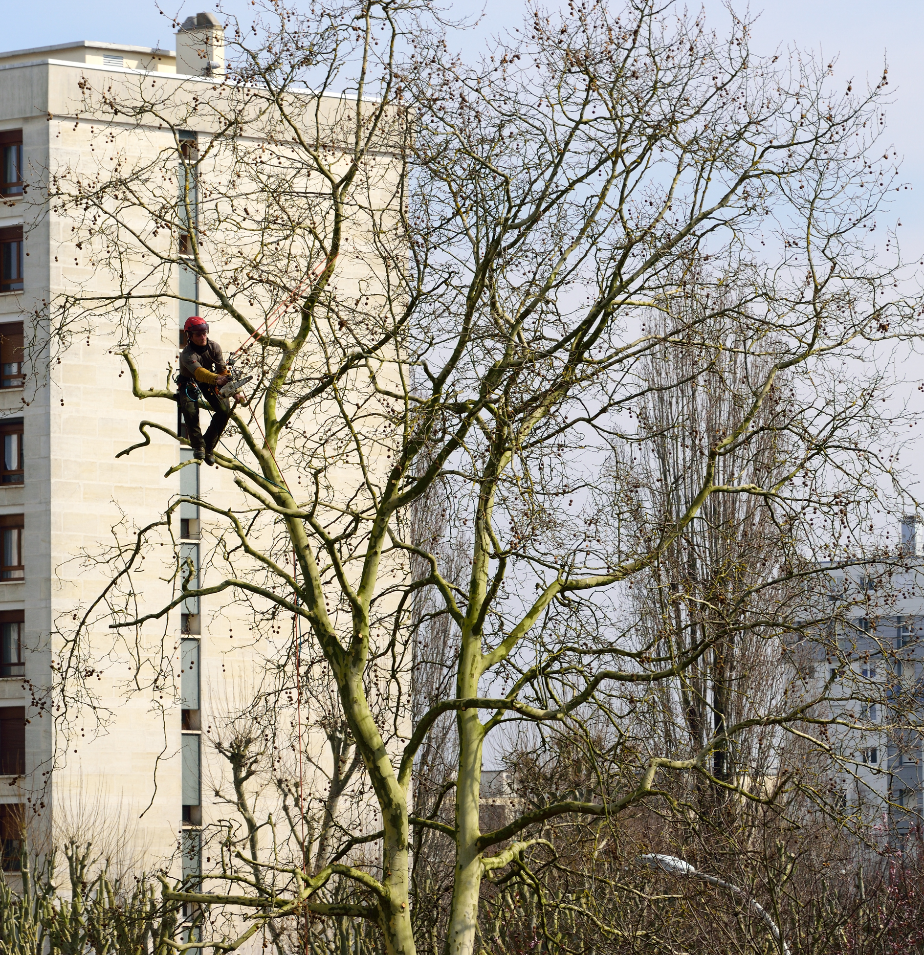 Maintenance of trees by pruning in urban area.